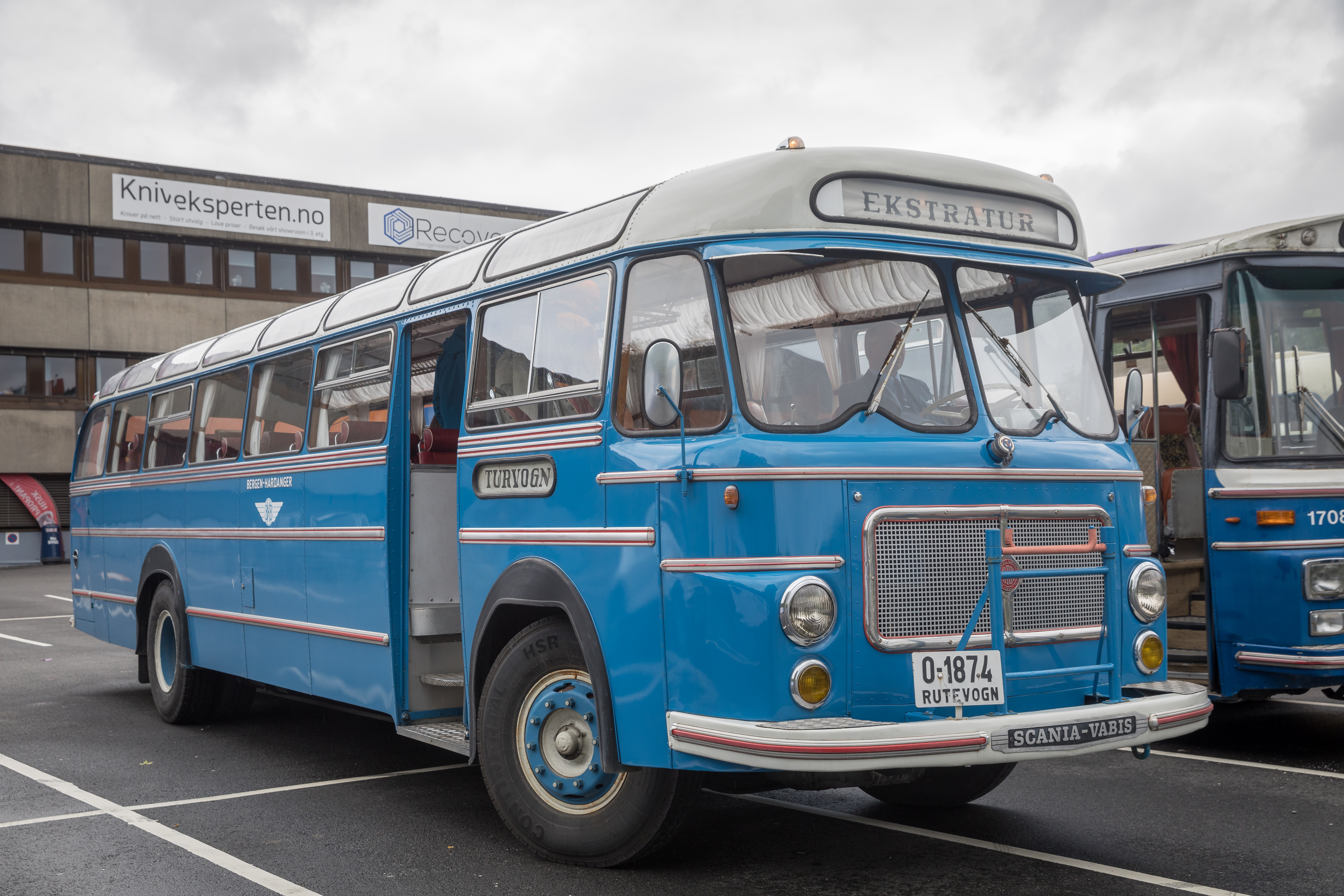 Vintage vehicles at Fjordsteam 2018. The maritime heritage festival took place between August 2 and August 5 2018 in Bergen, Norway.